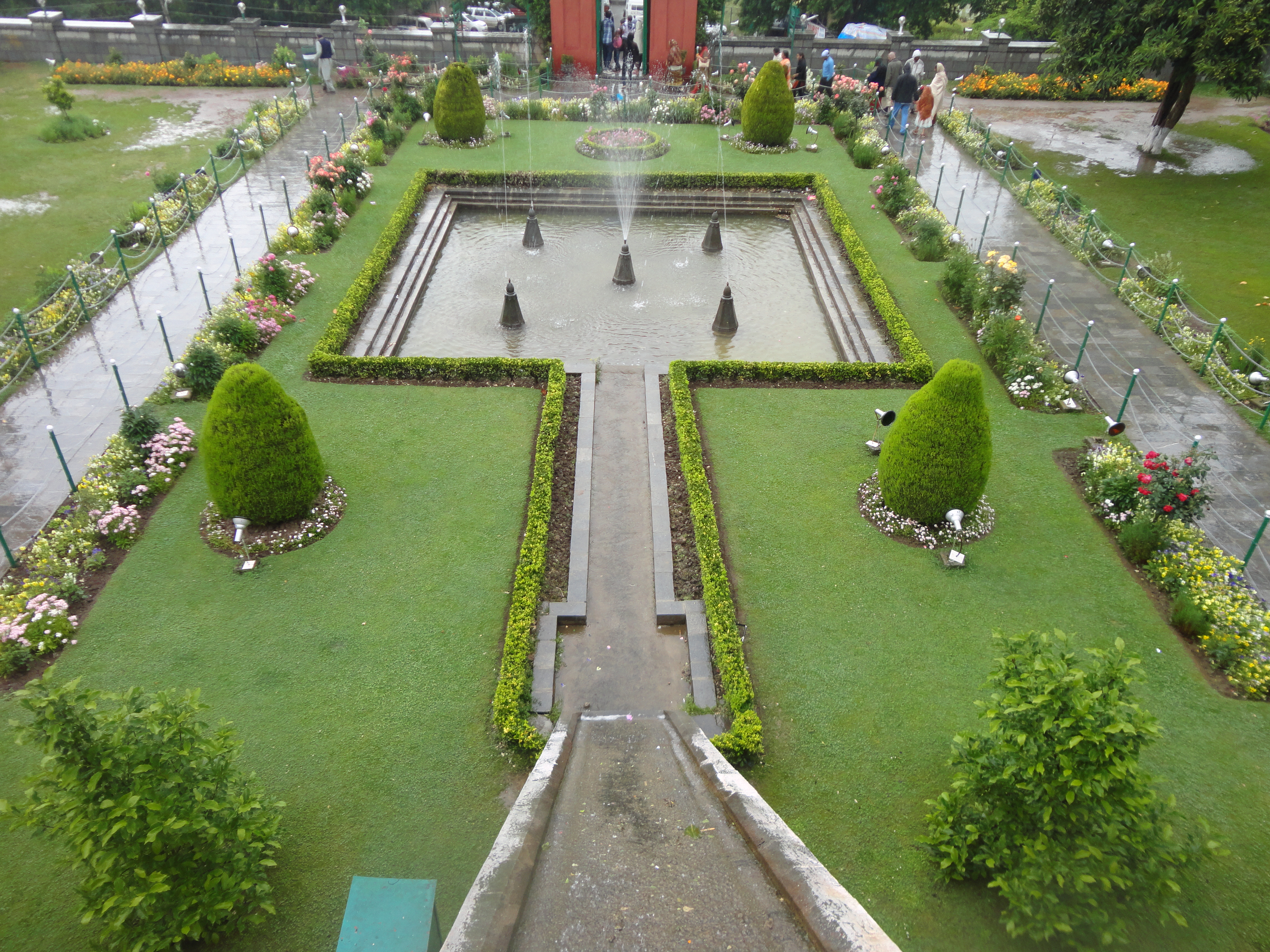 A view of the fountains at Nishat Baugh